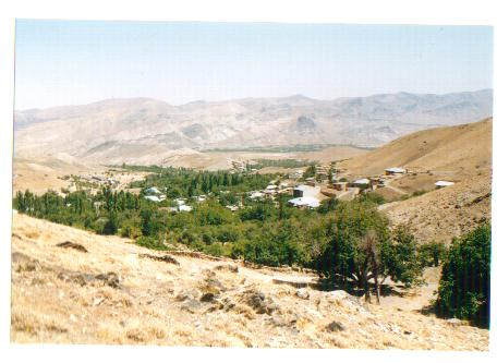 Teraran (Delaram) village in Tafresh area in Markazi Province of Iran.